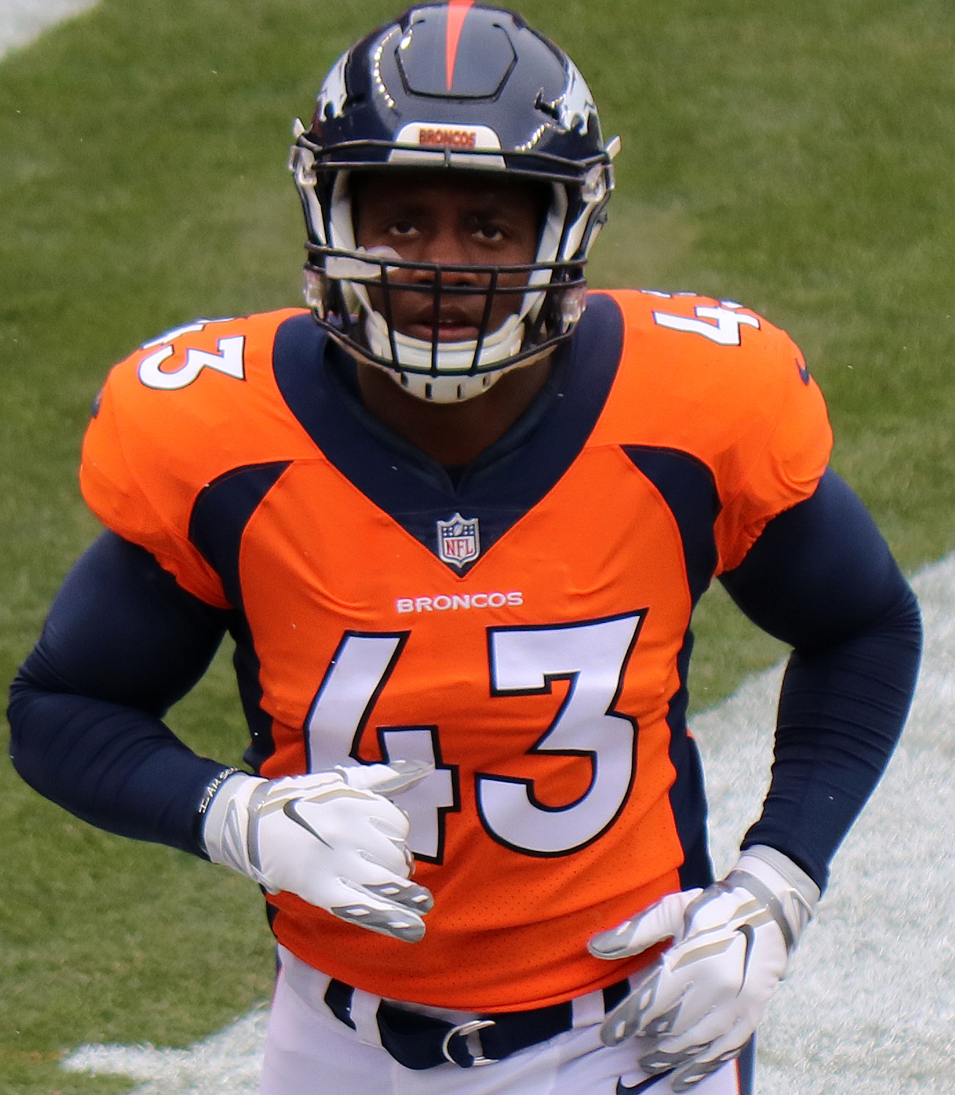 Joseph Jones, a National Football League player.